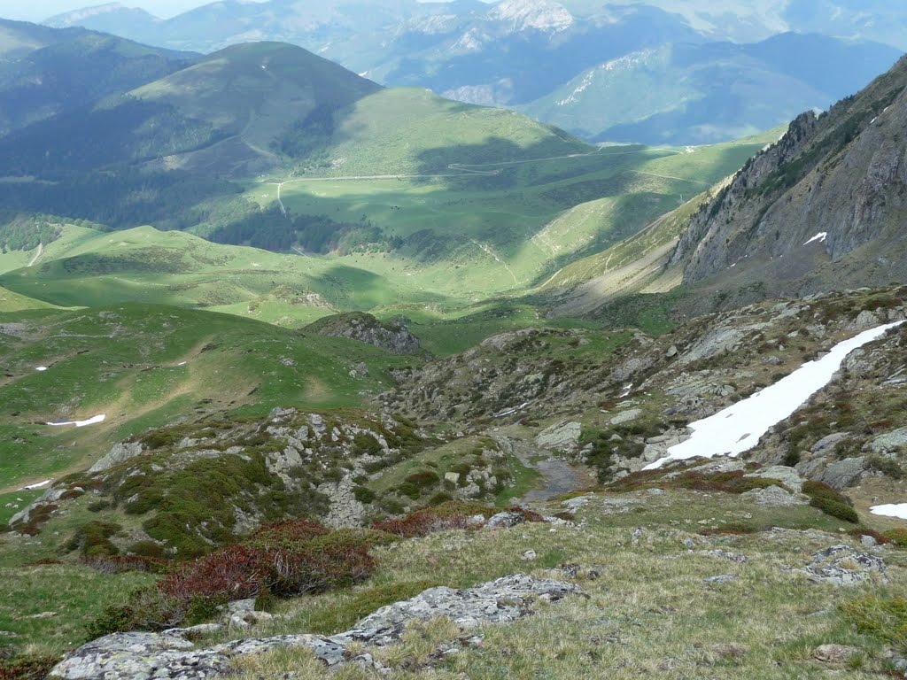 Hourquette d'Ancizan (1564 m) seen from Clot det Mail